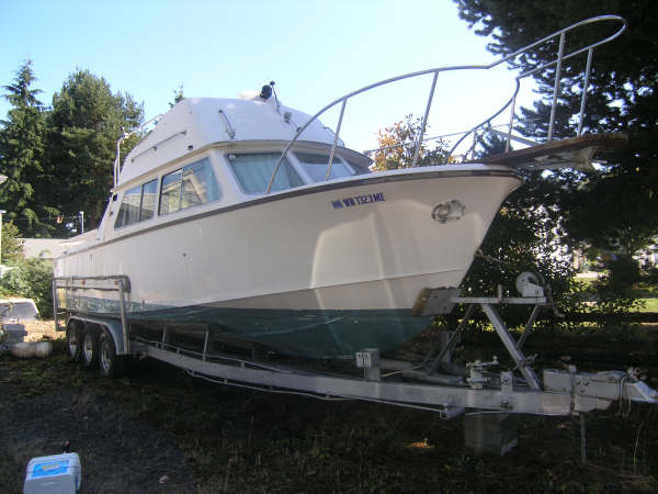 image of a Carter Safari 28 boat